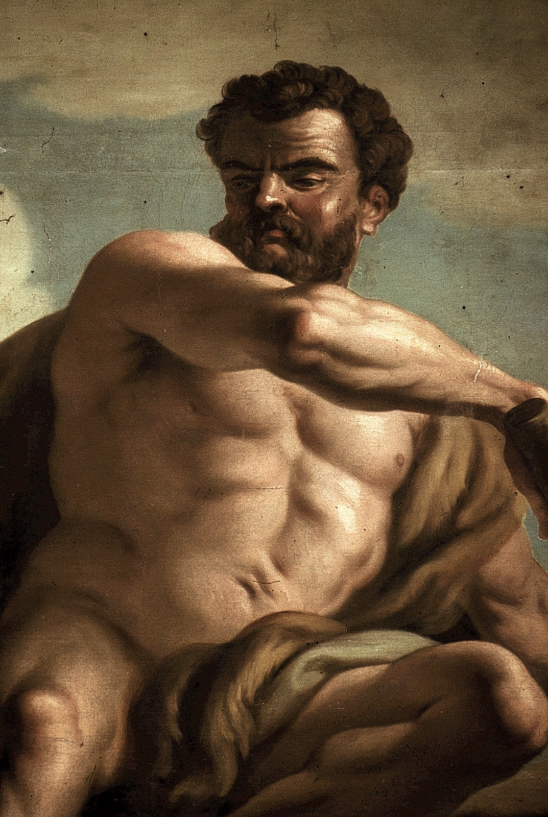 t